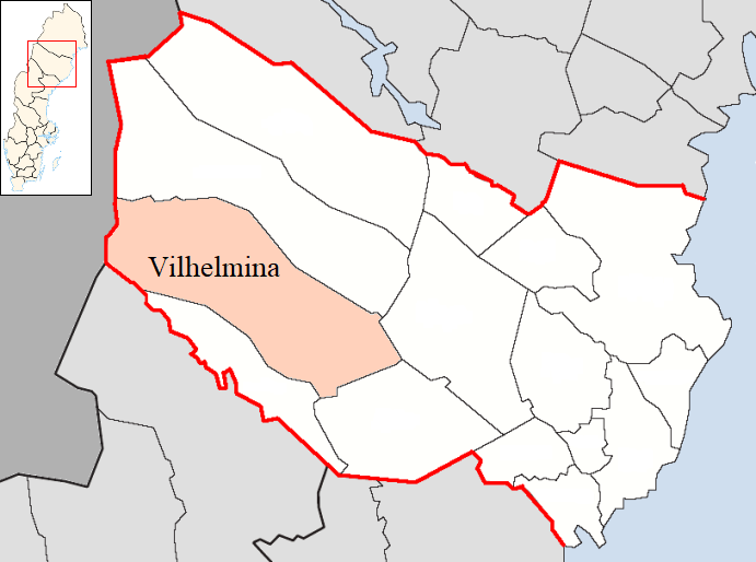 Vilhelmina Municipality in Västerbotten County Designed by me. Mere outlines are a PD source from